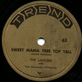 Trend 78 record label, scanned by Infrogmation (talk) from original in my collection. For Trend Records article.